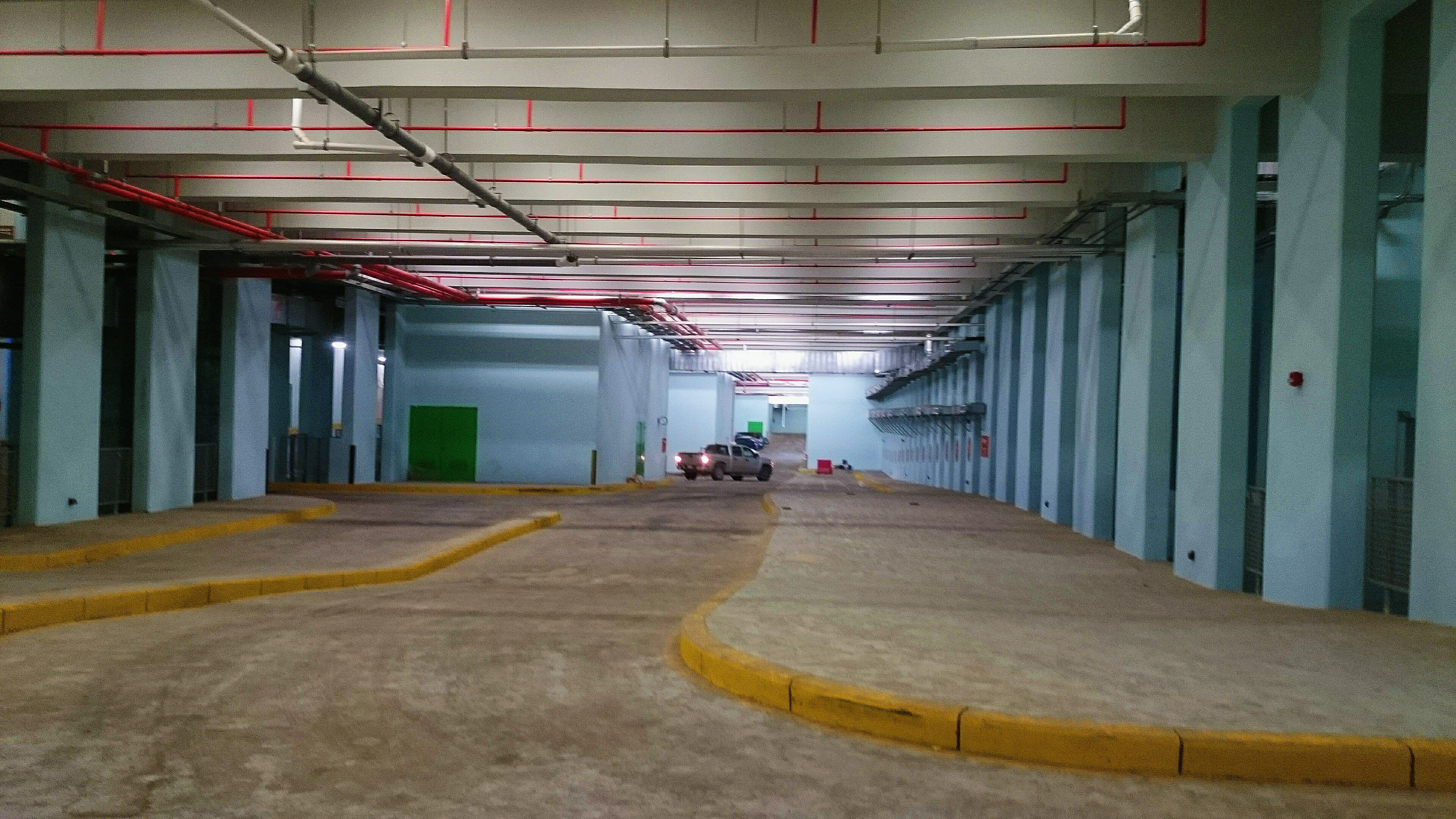 car underground parking lots in KFUPM